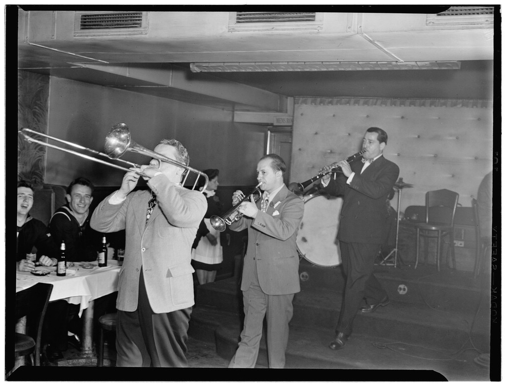 Gottlieb, William P., 1917-, photographer. [Portrait of George Brunis and Tony Parenti, Jimmy Ryan's (Club), New York, N.Y., ca. Aug. 1946] 1 negative : b&w ; 3 1/4 x 4 1/4 in. Notes: Gottlieb Collection Assignment No. 041 Purchase William P. Gottlieb Forms part of: William P. Gottlieb Collection (Library of Congress). Subjects: Brunis, George, 1900-1974 Parenti, Tony, 1900-1972 Jazz musicians--1940-1950. Trombonists--1940-1950. Trumpet players--1940-1950. Clarinetists--1940-1950. Fifty-second Street (New York, N.Y.)--1940-1950. Jimmy Ryan's (Club) Format: Portrait photographs--1940-1950. Group portraits--1940-1950. Film negatives--1940-1950. Rights Info: Mr. Gottlieb has dedicated these works to the public domain, but rights of privacy and publicity may apply. Repository: (negative) Library of Congress, Prints & Photographs Division, Washington D.C. 20540 USA, Part Of: William P. Gottlieb Collection (DLC) 99-401005 General information about the Gottlieb Collection is available at Persistent URL: Call Number: LC-GLB13- 0986 This work is from the William P. Gottlieb collection at the Library of Congress. Rights and restrictions. In accordance with the wishes of William Gottlieb, the photographs in this collection entered into the public domain on February 16, 2010.